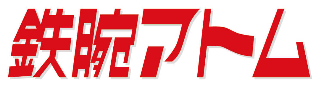 Astro Boy (鉄腕アトム, Tetsuwan Atomu) franchise logo.